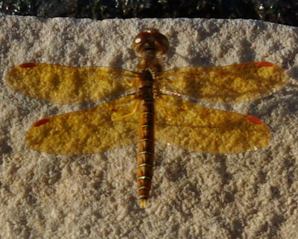 Eastern Amberwing (Perithemis tenera) dragonfly at the Oklahoma City National Memorial.